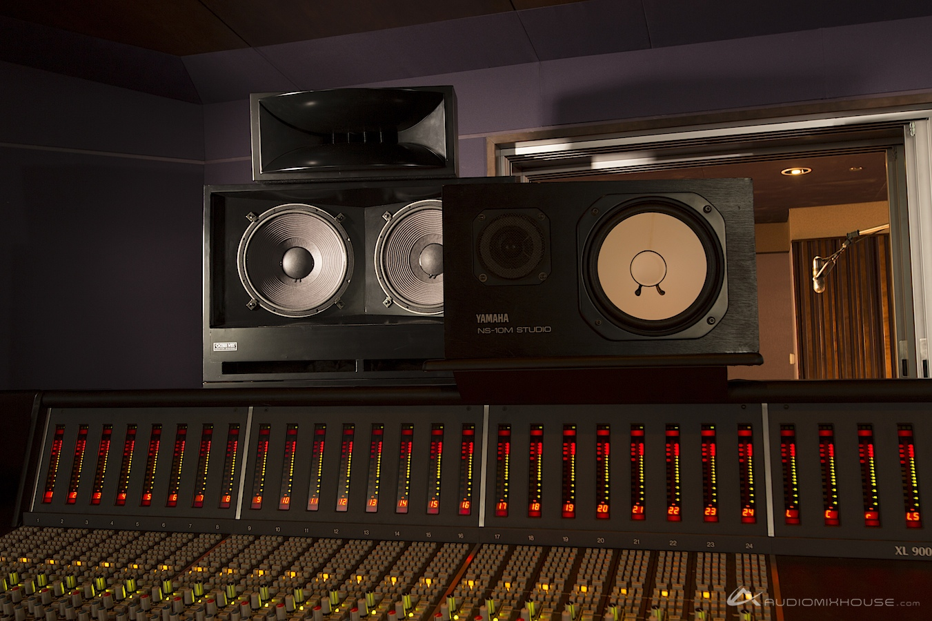 Studio B, our large mixing room at Audio Mix House, Las Vegas, NV